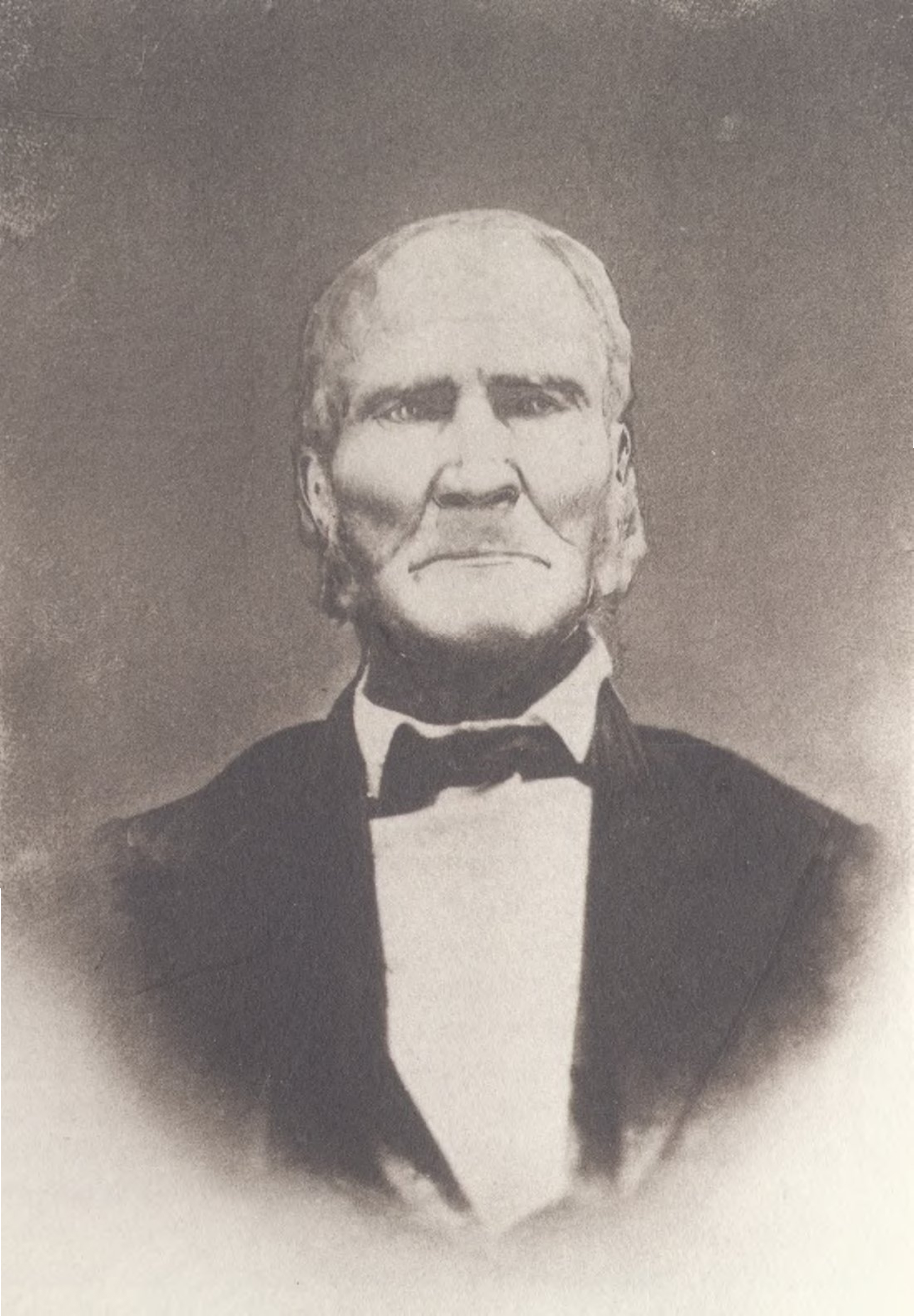 Photo of General Samuel Whiteside in 1863